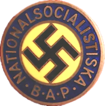 This PNG revision is my own work, but the original picture is not. A request in the Graphics Lab asked for this revision to PNG format. The original request being listed as: Swedish Nazi logo, 1920s? Not sure how to document the copyrights on this